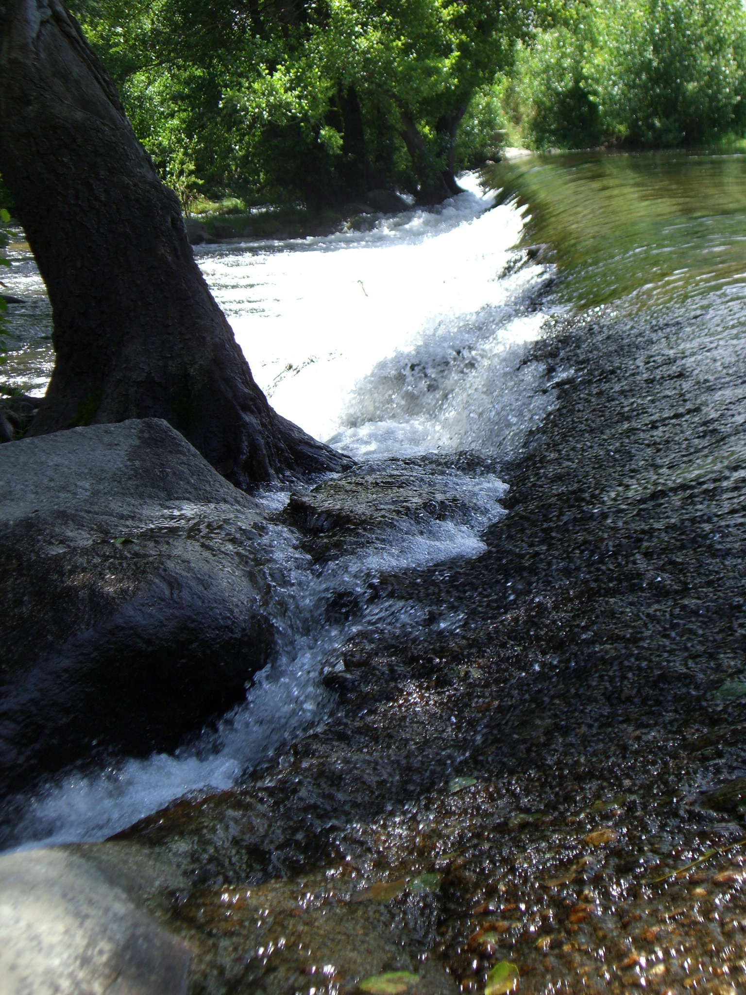 Alberche River in Navaluenga (Ávila, Castile and León), Spain